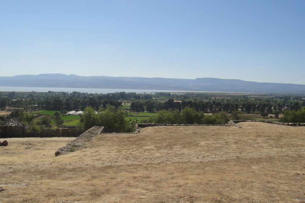 Template:Huandacareo, south view of terraces and lake